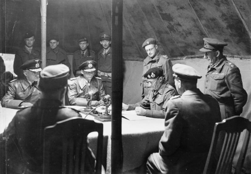 The Allied Campaign in North-west Europe, 6 June 1944 - 7 May 1945 Victory in the West April - May 1945: Field Marshal Bernard Montgomery signing the Instrument of Surrender of German forces in North-West Europe at Luneberg Heath.